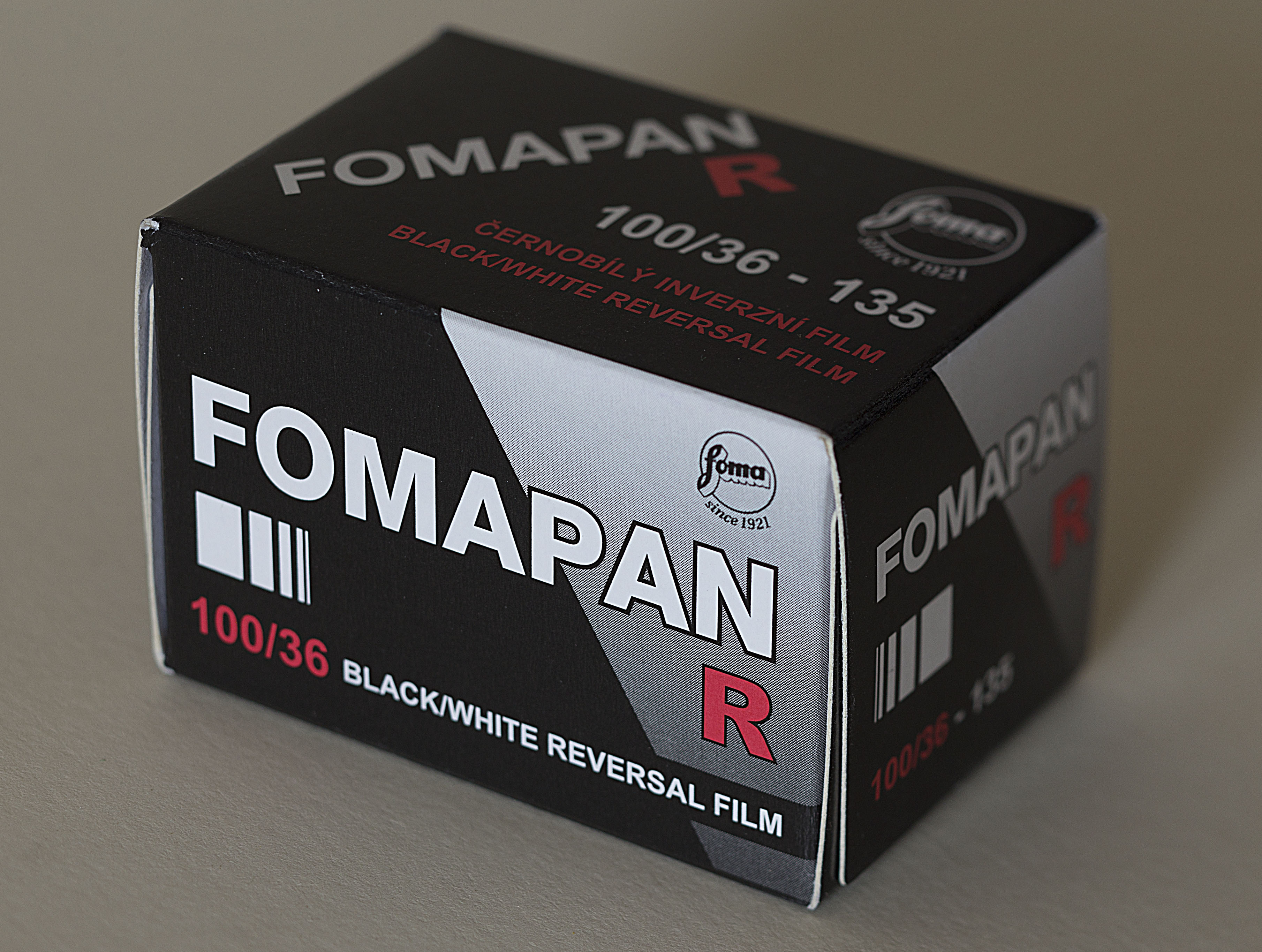 Foma Fomapan R film